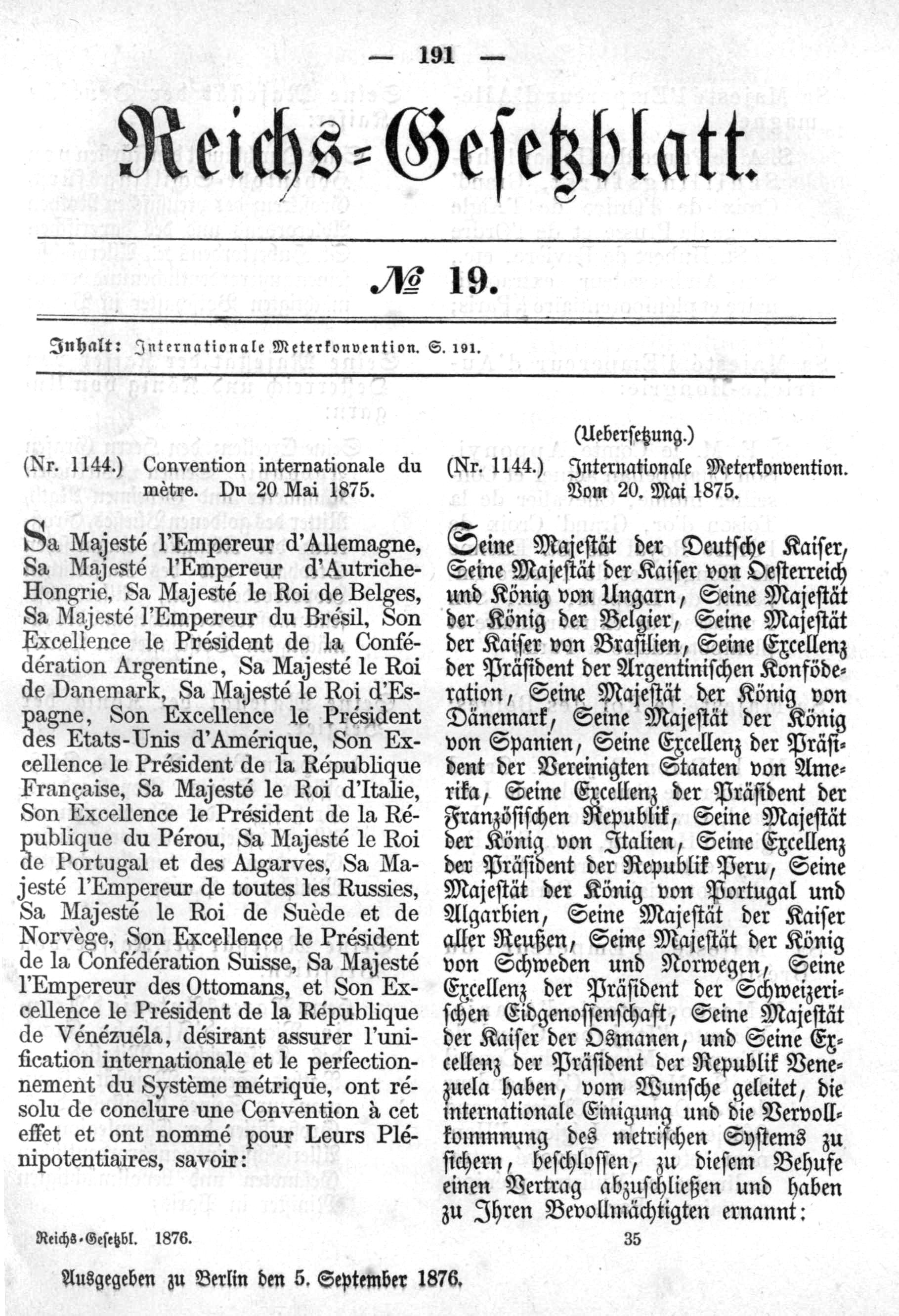 Scan from the Imperial Law Gazette of Germany, 1876